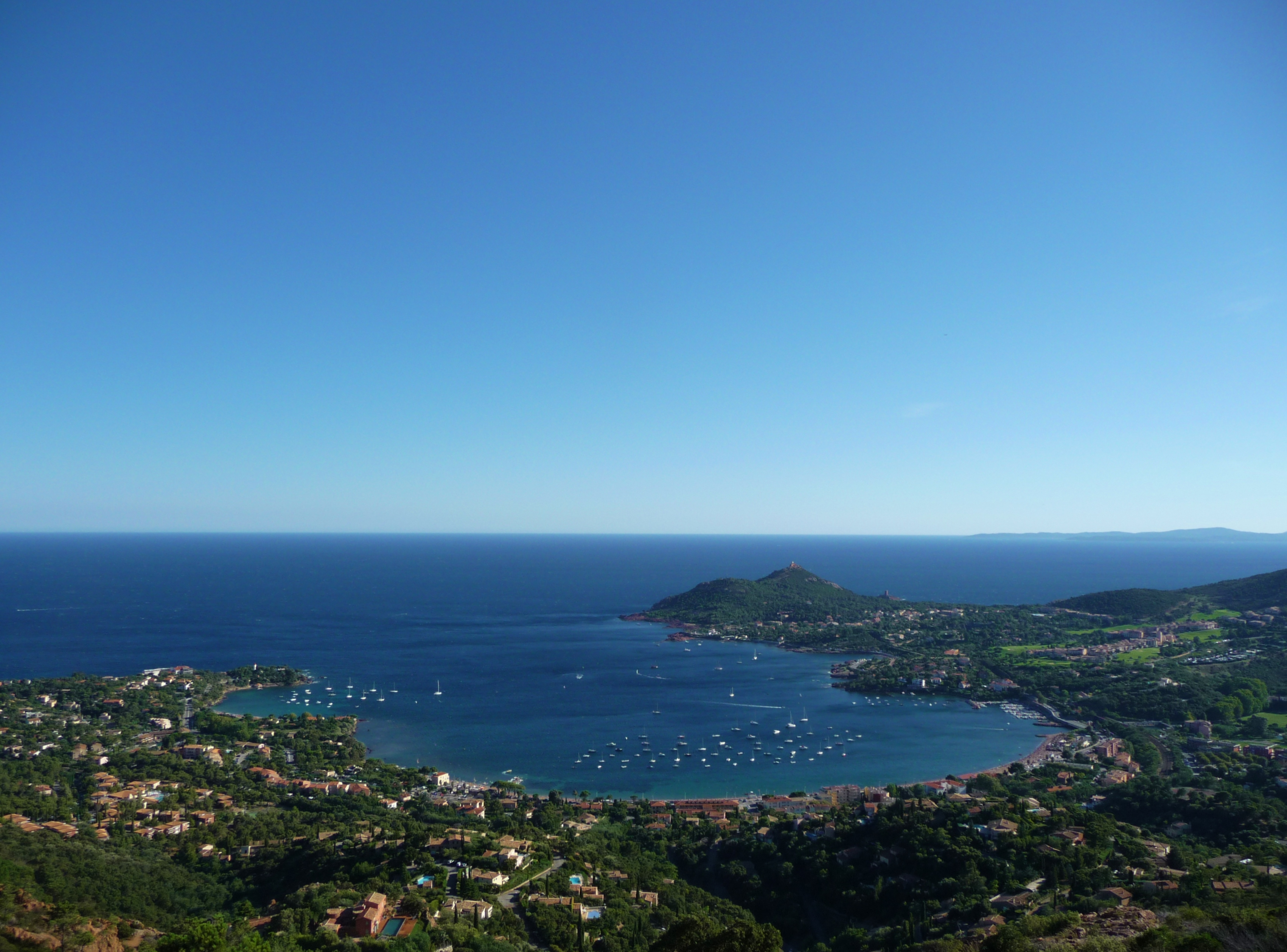 Agay as seen from the "rastel" (France, Var, French Riviera).